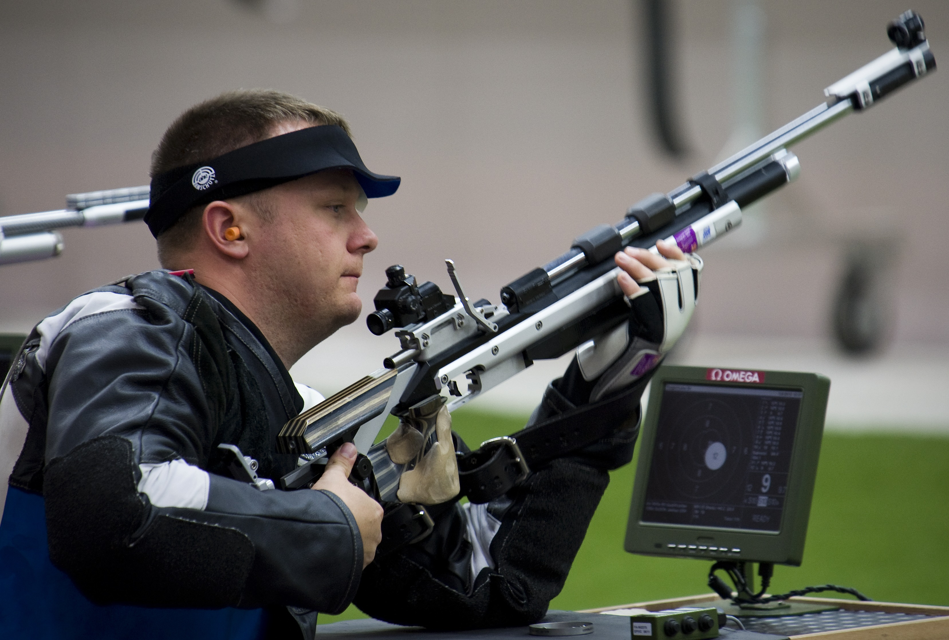 U.S. Army Sgt. 1st Class Joshua Olson competes in the 10-meter rifle competition during the 2012 Paralympic Games in London Sept. 1, 2012. The Paralympics is a major international sporting event in which thousands of athletes, including wounded and injured U.S. Service members, participate in a variety of sporting events.